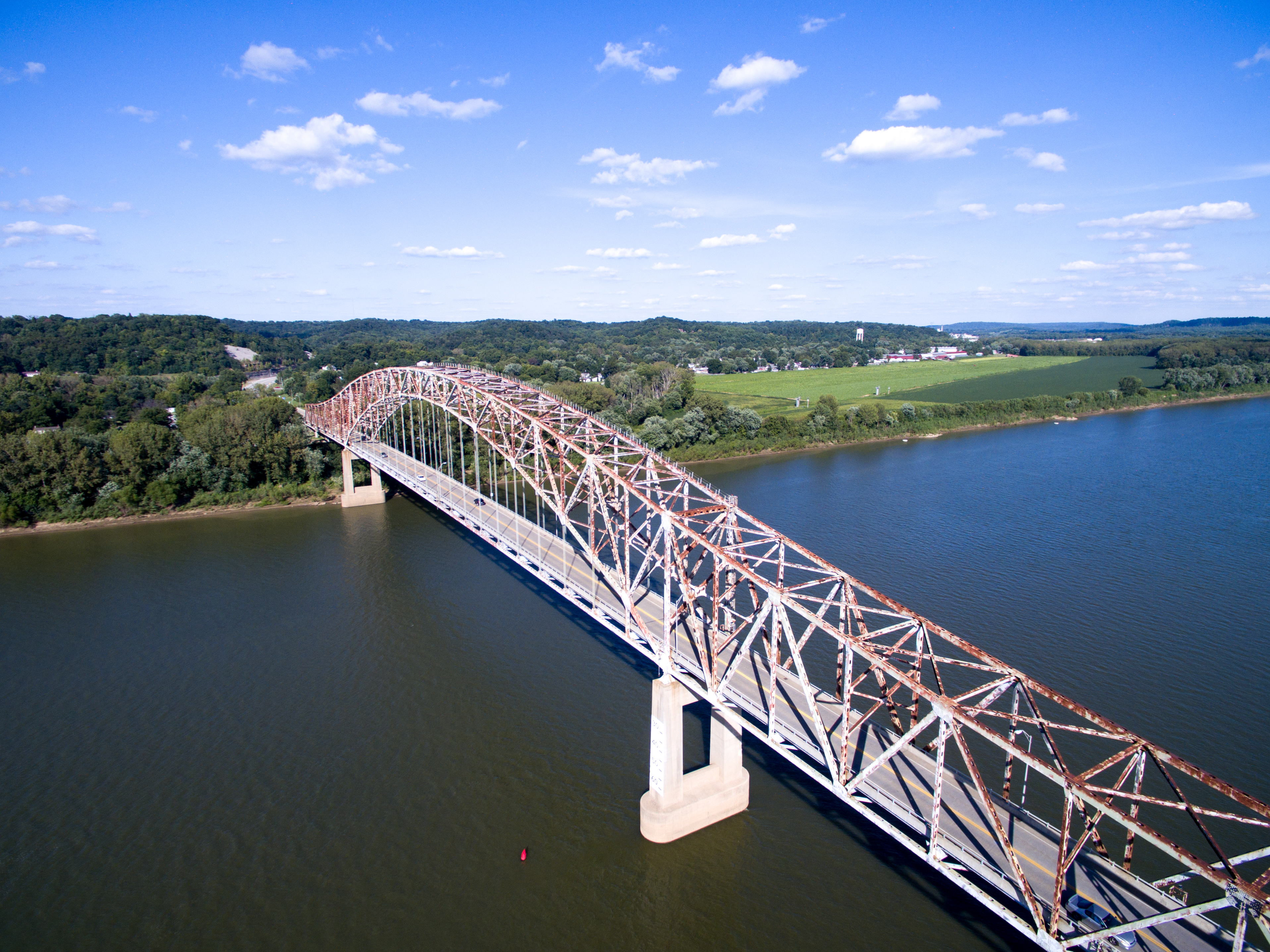 Aerial view of the Bob Cummings Lincoln Trail Bridge, facing away from Hawesville and towards Cannelton.